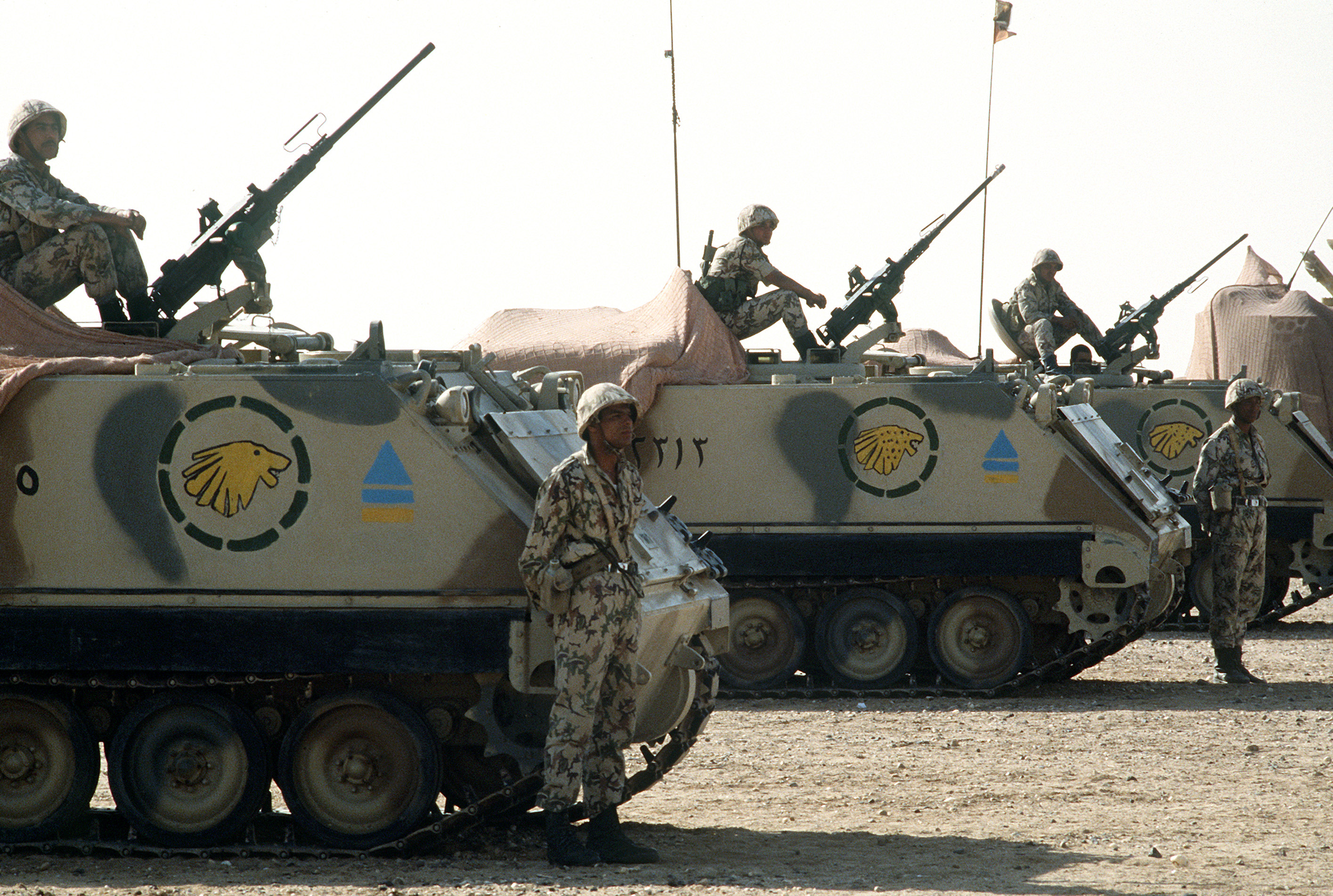 Egyptian soldiers man M-2 .50-caliber machine guns atop M-113 armored personnel carriers during a demonstration for visiting dignitaries, part of Operation Desert Shield.